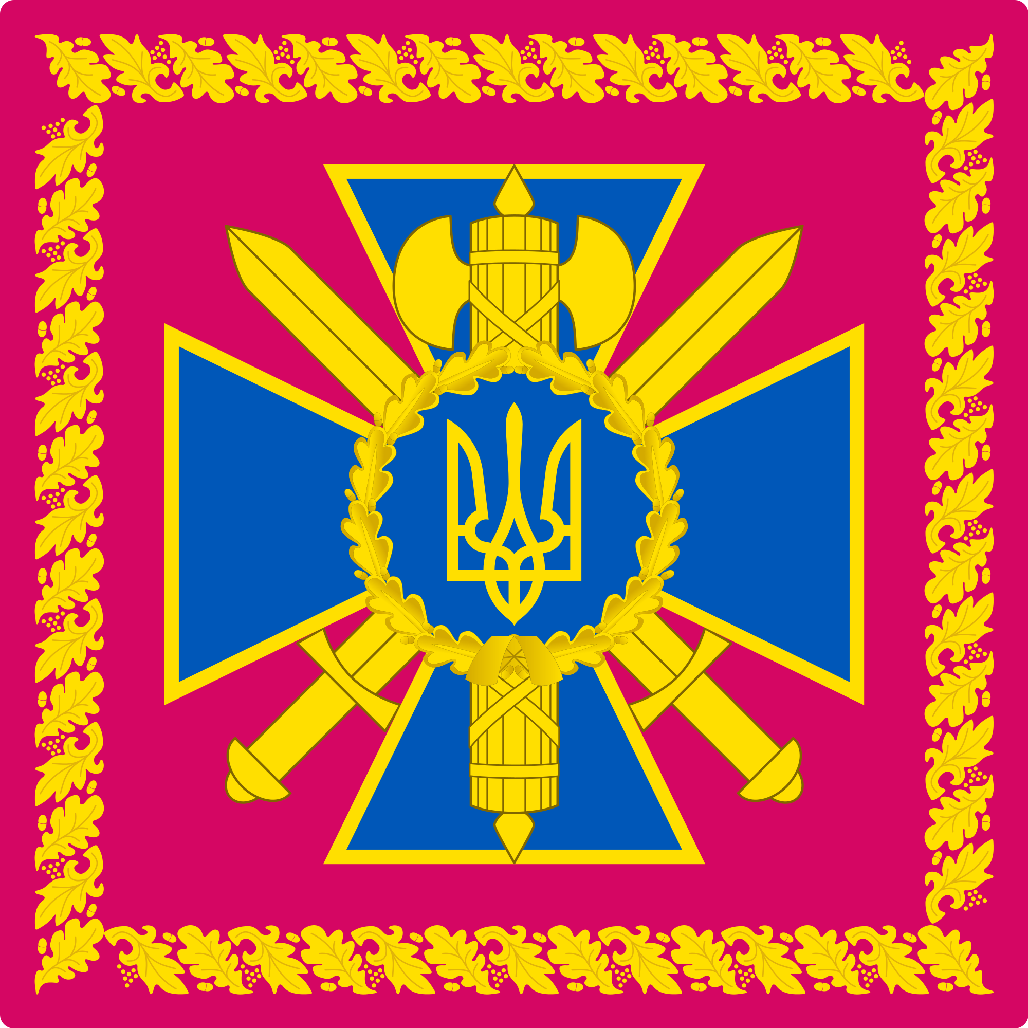 Standard of Ukrainian Security Service Head